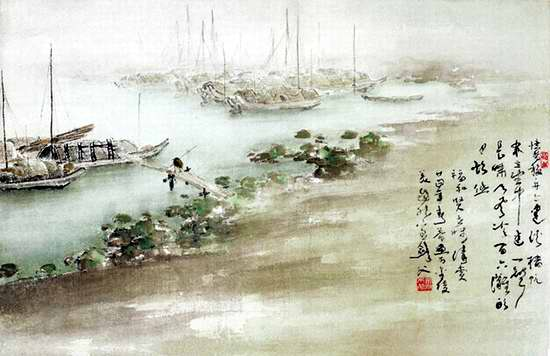 The painting by Gao Jianfu (1879-1951) 中文（香港）: 《渔港雨》（44.3x68cm），1935年，中国美术馆